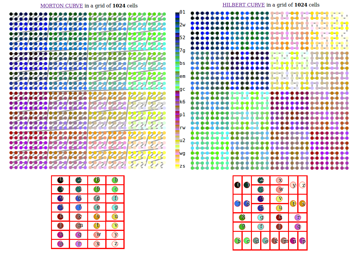 Using curve distance as 3-digit base16 RGB color code to plot central points in square grids. Using base32-Geohash as code, levels 2.5 and 5 Made by screenshot of Morton (Z-order) and Hilbert curves of level 6 (45=1024 cells in the recursive square partition) plotting each address as different color in the RGB standard, and using Geohash labels. The neighborhoods have similar colors, but each curve offers different pattern of grouping similars in smaller scales.